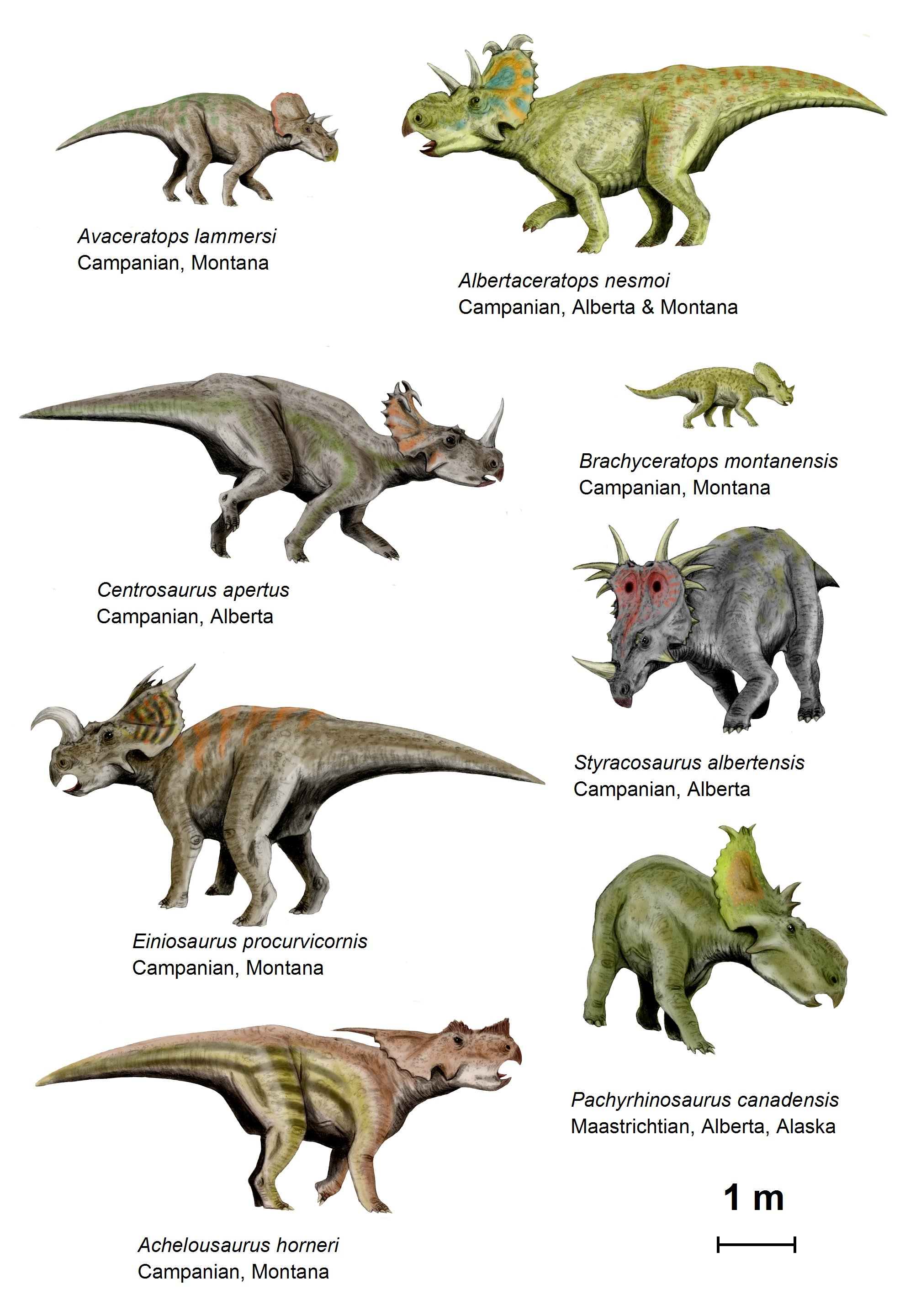 The centrosaurinae ceratopsians drawn to scale, pencil drawing, digital coloring